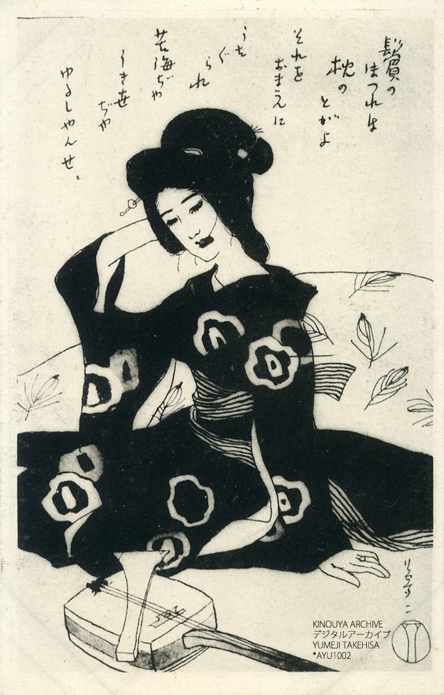 Postcard of a drawing of a woman by Yumeji Takehisa